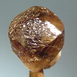 Diamond Locality: Makeni, Bombali District, Northern Province, Sierra Leone (Locality at ) Size: 0.6 x 0.5 x 0.5 cm. A beautifully symmetrical, sharp, gemmy and highly lustrous, 1.3 carat, brown, octahedral diamond crystal from Sierra Leone, Africa. The stepped growth faces are eye-catching.